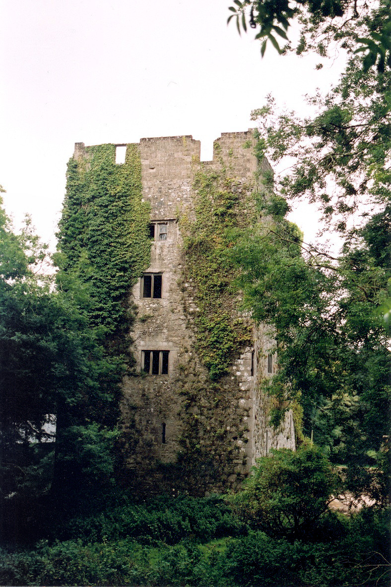 Bourchier Tower at Lough Gur (September 2005), owned by the Earl, at the heart of his county Limerick estate, From John Francis Charles-"Bourchier Tower, Lough Gur in 2005. Sometime in tenancy of the Baylee family. Described by Mary Carbery in The Farm by Lough Gur.[2] Part of the Count's Irish estate, most of which was sold as part of the Irish Land Acts." Photo: R. de Salis (Sept. 2005) Summary Photo: R. de Salis (Sept. 2005)